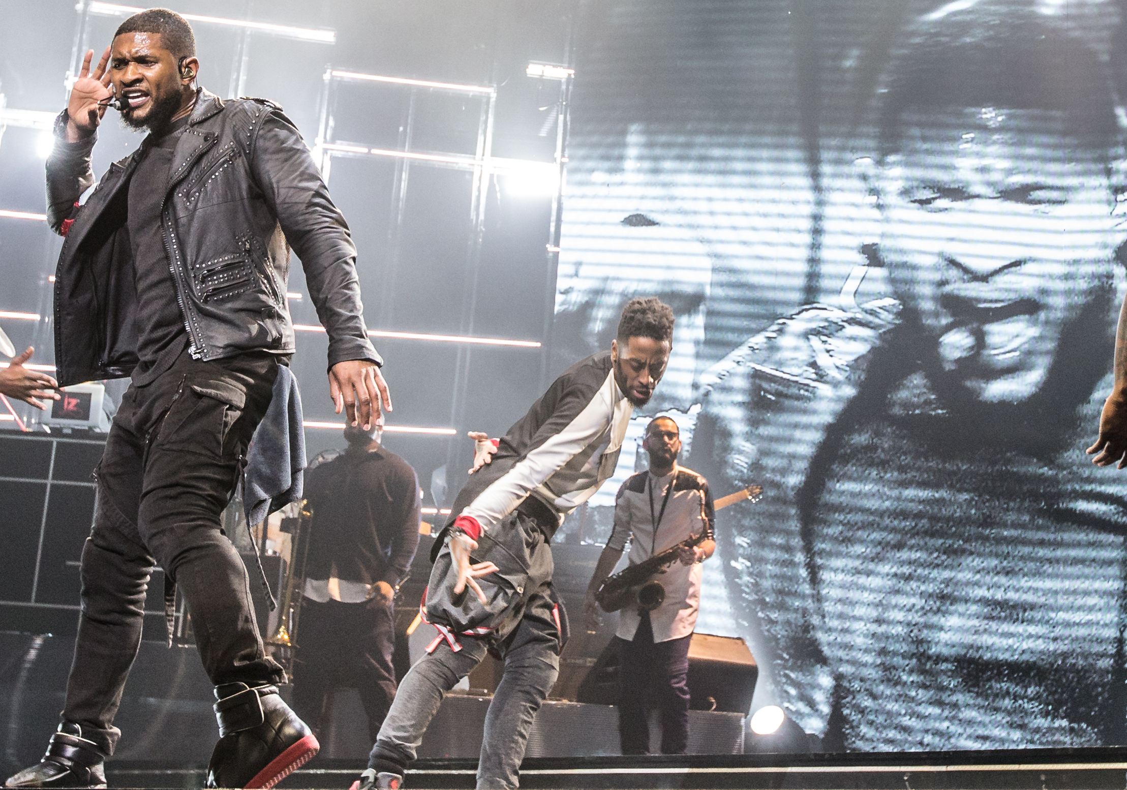 Usher, #URXTOUR 2015© Copyright: AS Sportfoto / Soerli Binder,www. as-sportfoto.de,S.Binder Hauptstr. 143 69168 Wiesloch, / ,USt.IdNr. DE240155184